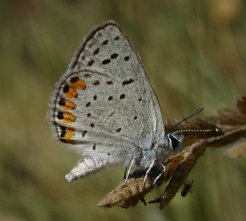 Acmon Blue (Plebejus acmon) seen at White Slough near Lodi, California.